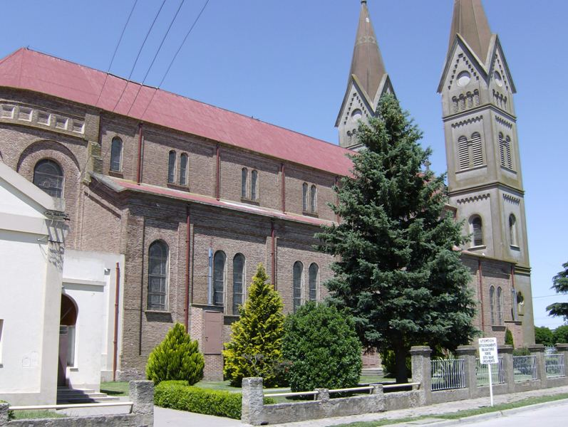 St. Joseph Catholic Church in San José, Coronel Suárez, Argentina (Volga German colony)